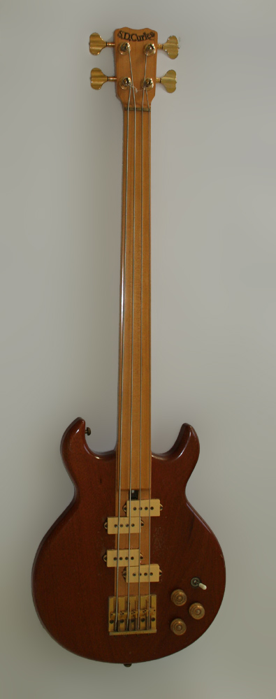 A fretless bass guitar manufactured by S.D Curlee